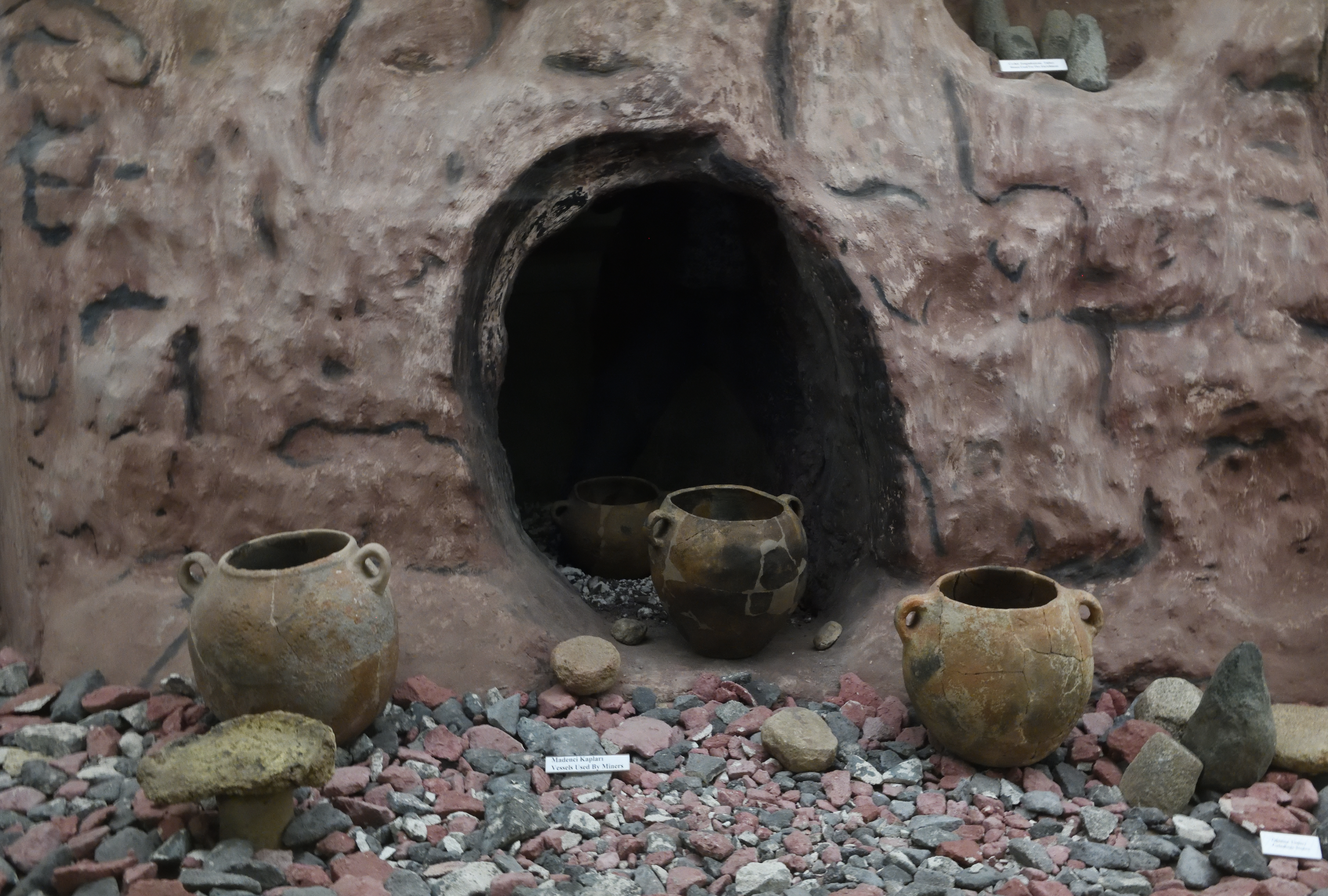 One of some finds in the room with objects and diorama's from the Early Bronze Age, here 3000-2000 BC. A notice indicates how relevant materials were mined around Göltepe, that would be ground and refined, till by melting tin would be produced that was fashioned into ingot. These could later be molten down with copper, producing an alloy, bronze, that was the raw material for tools, weapons and jewellery in the Bronze Age. This is a replica of the entrance of such a tin mine. Another notice indicates how in Kestel the tin mining was performed, by the use of fire to heat rock, than crack it under an ore vein by quenching the rock with water. Then breaking the rocks further. The mine had a labyrinthine excavation area of 1,5 kilometres.